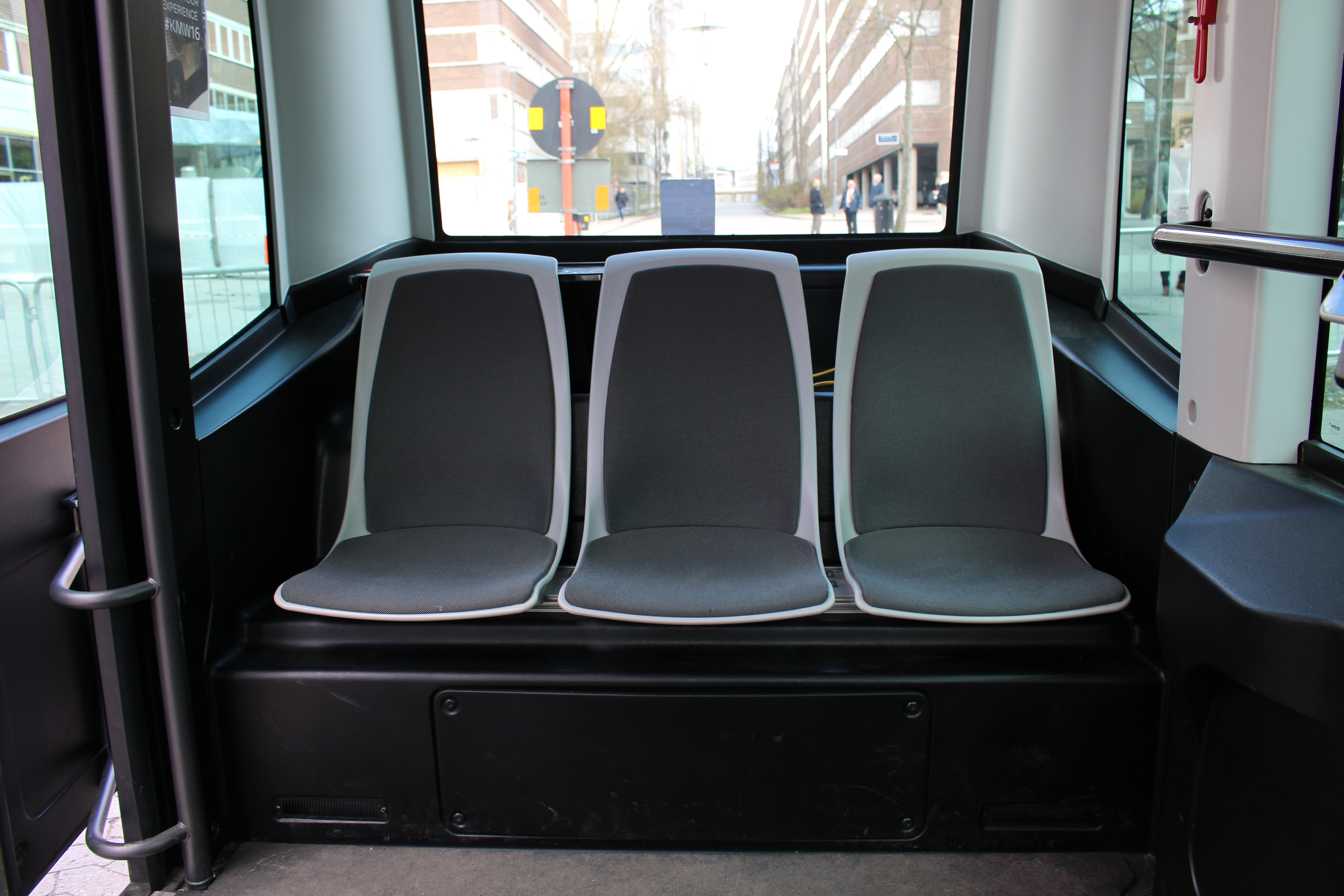 Demonstration of Ligier EZ-10 at Kistagången in Kista, Stockholm, Sweden